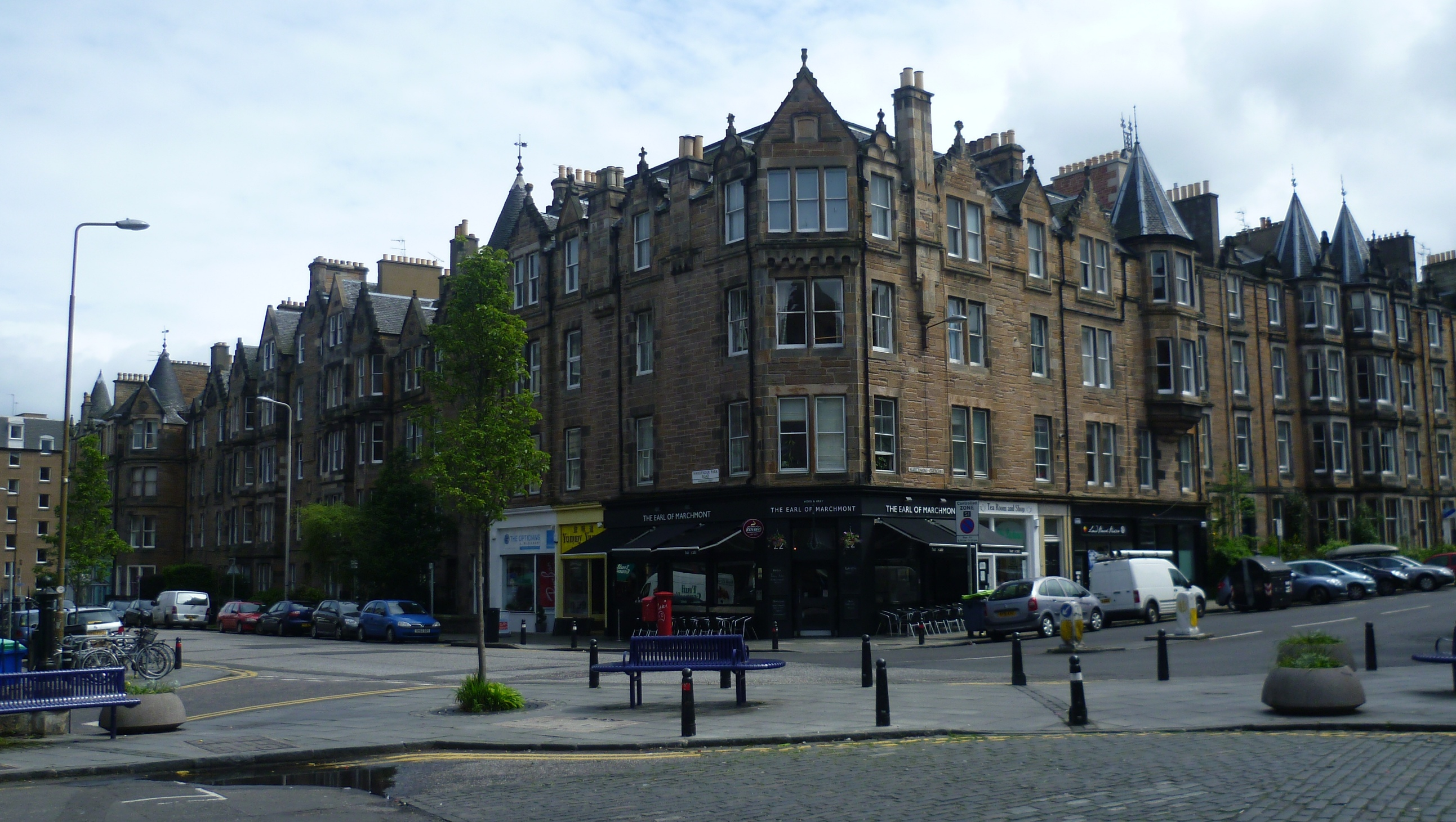 Junction of Roseneath Street and Marchmont Crescent